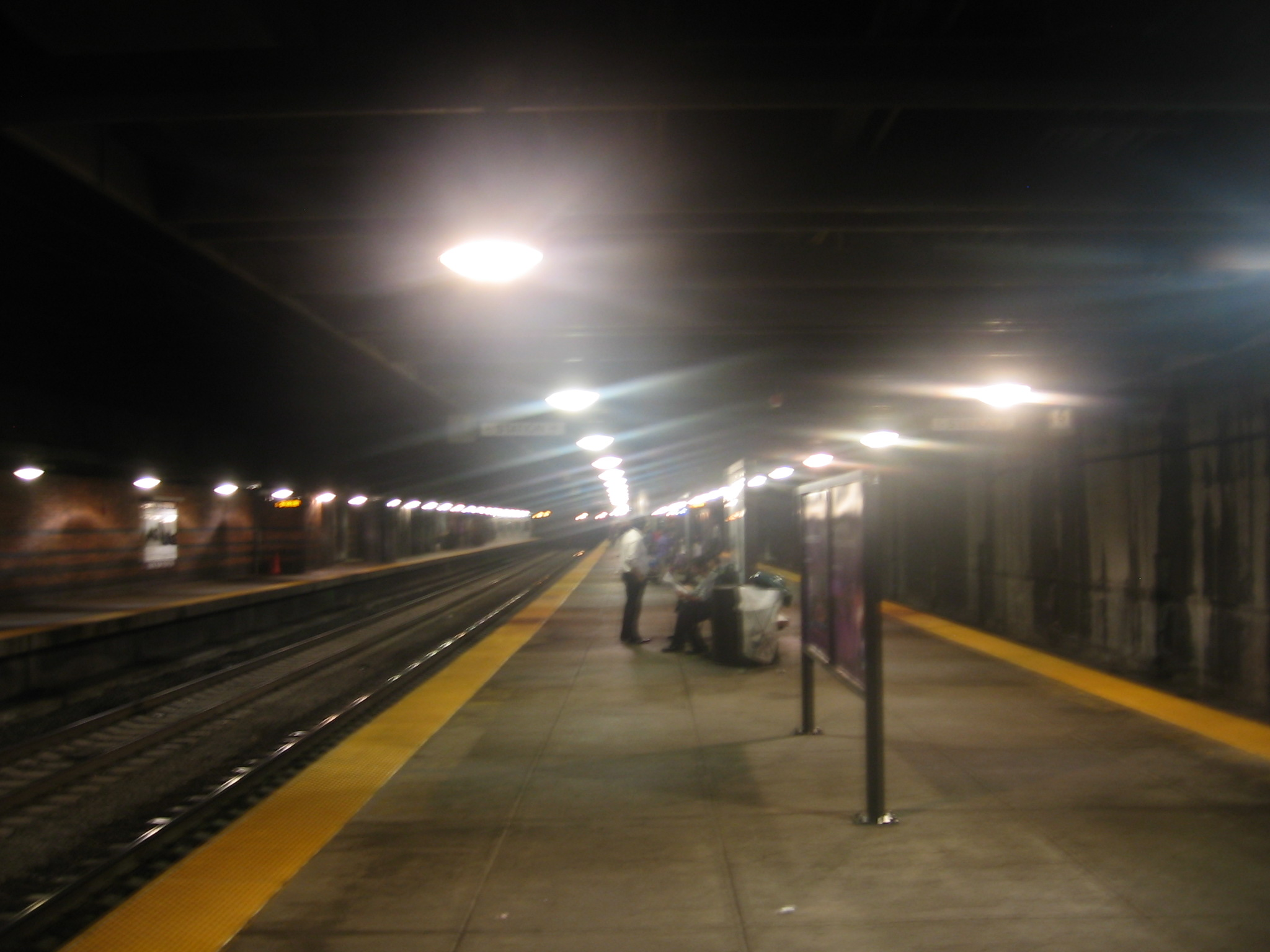 The island platform serving tracks 1 and 3 (center and outbound Northeast Corridor tracks) at Back Bay station. This view faces west towards the main station building. Diesel fumes in the air cause the halos around the ceiling lights.